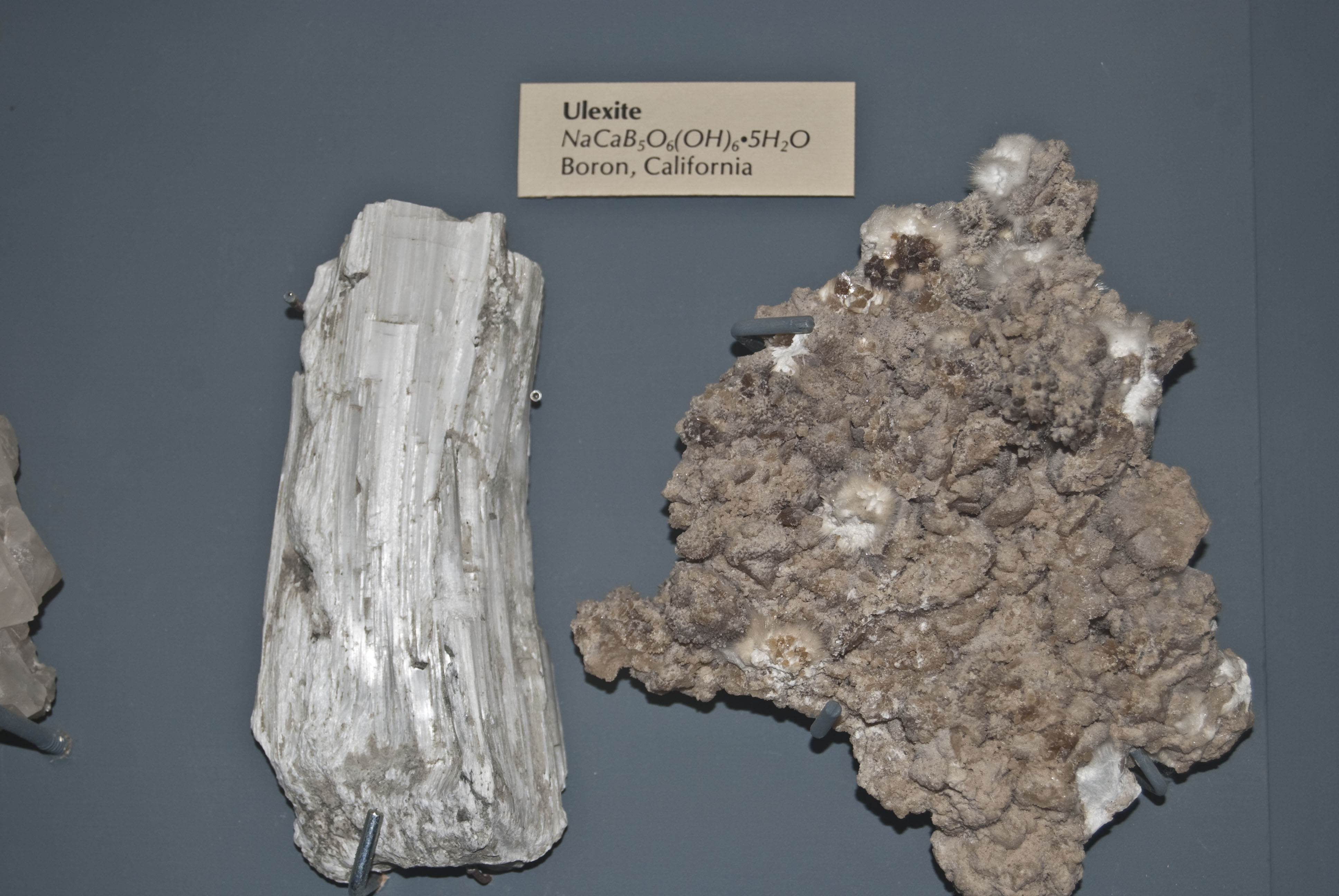 Norman and Gertrude Pendleton mineral collection Ulexite Boron, California